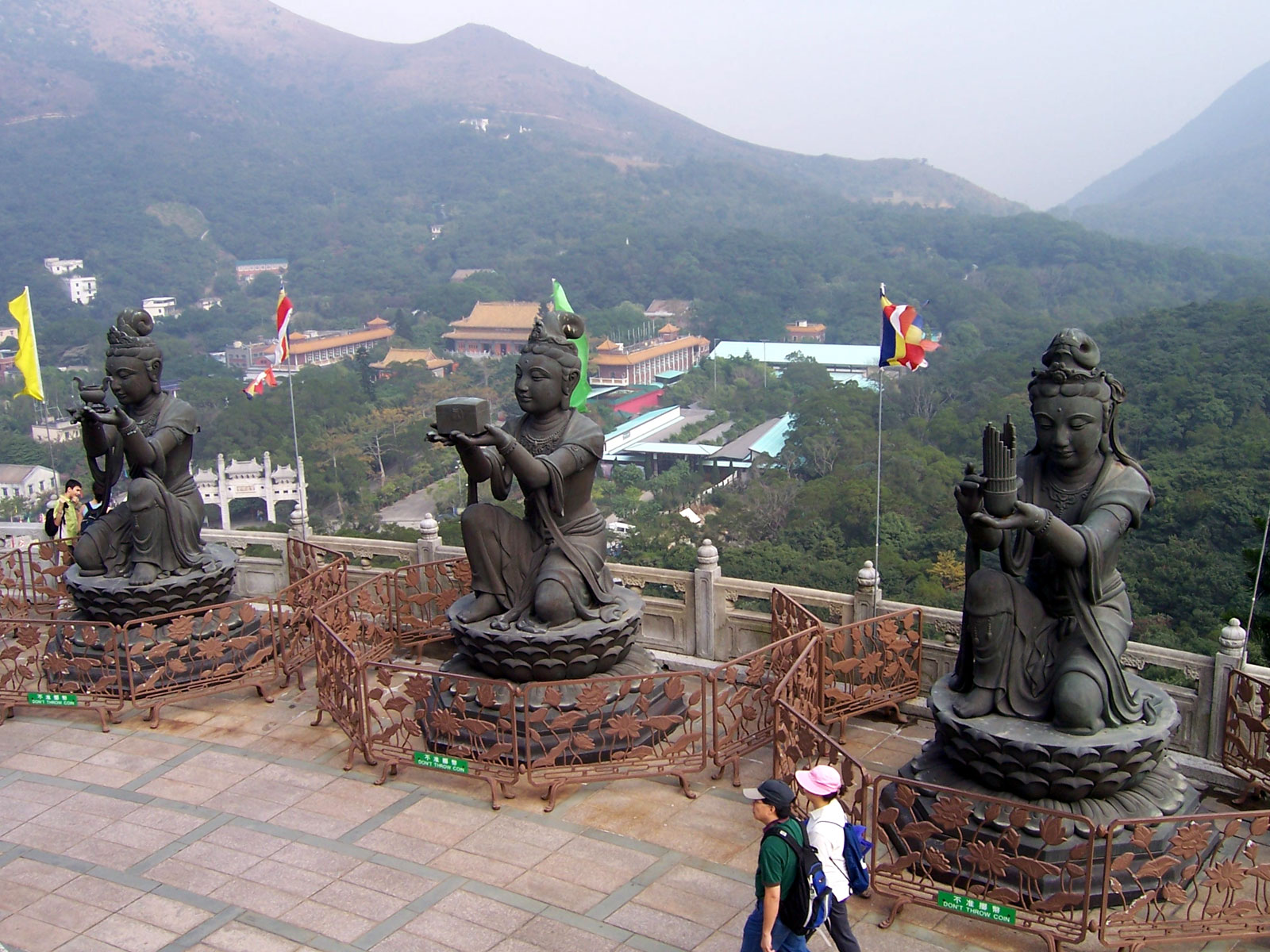 View from the Tian Tan Buddha on Lantau Island.